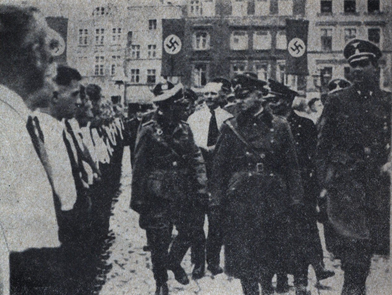 Inspection of paramilitary "Volksdeutscher Selbstschutz" unit in Toruń done by the organization’s commander – SS-Oberführer Ludolf-Hermann von Alvensleben (first from the right). Fourth from the right, in white shirt, walks Selbstschutz leader in Toruń, stadtführer Rudolf Preuss. Selbstschutz was a paramilitary formation composed of members of the German minority in pre-war Poland. Between September 1939 and April 1940 Selbstschutz - together with other Nazi-German formations - murdered tens of thousands of Poles in Pomerania. During the second world war this photo was placed in so-called "Album of fame of Selbstschutz" (known also as "Alvensleben Album"). After the end of war this album was found and taken over by the Polish authorities. It is now in the archives of the Commission for the Investigation of Nazi Crimes in Poland.